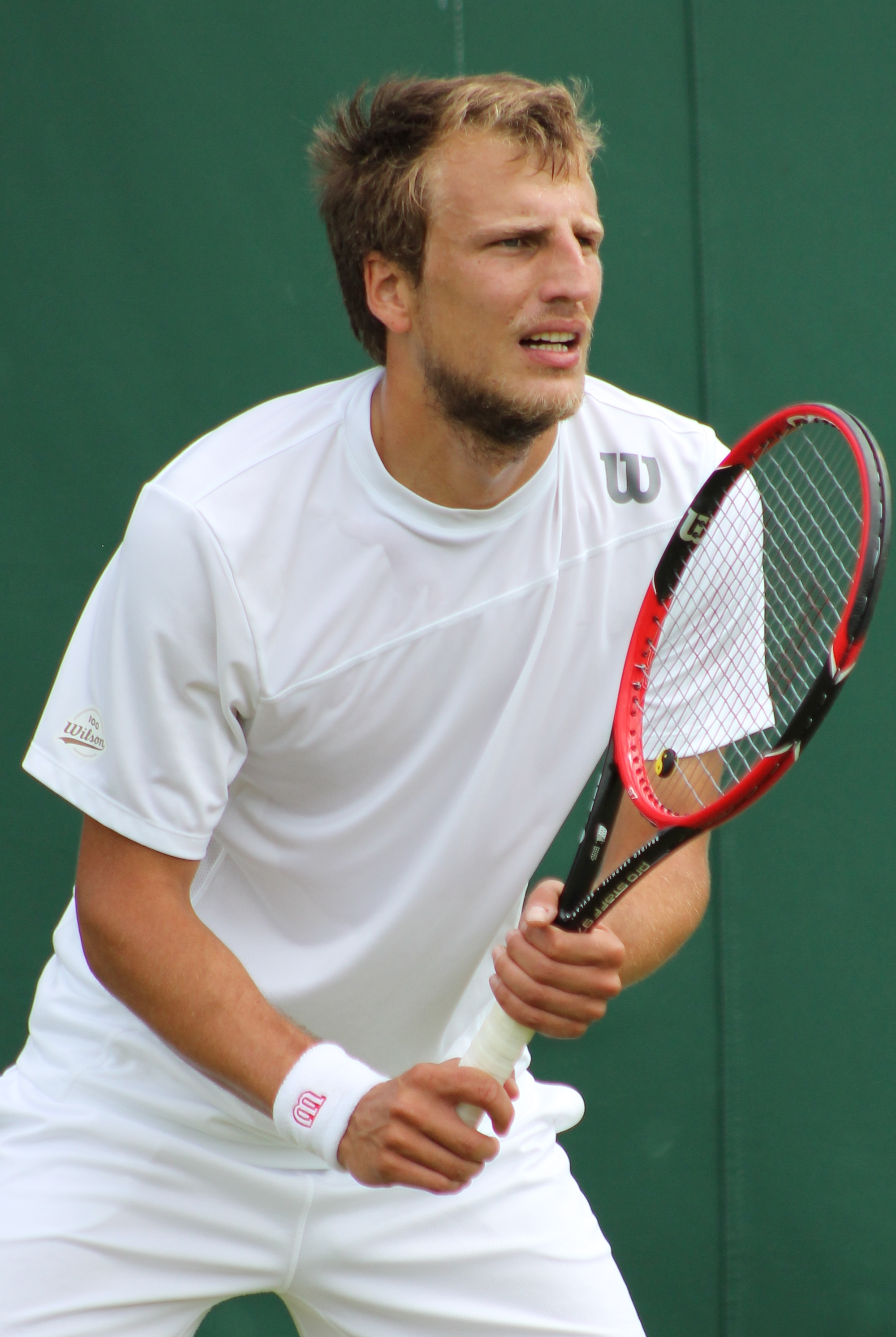 Basic WMQ15 (10)